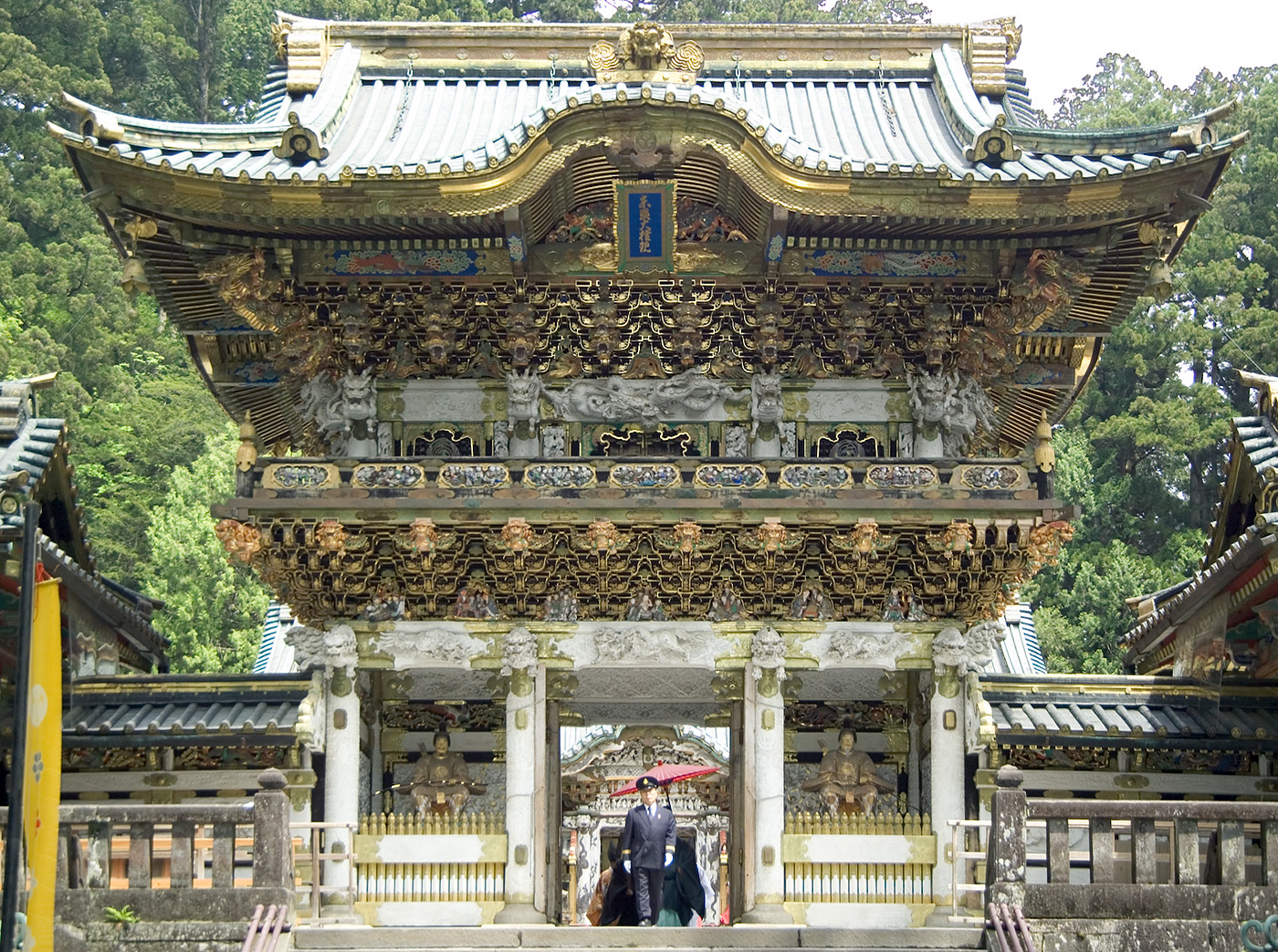 Yomeimon, the most famous gate at Toshogu, Nikko, Tochigi Prefecture, Japan, a UNESCO World Heritage Site. This is the view from the middle courtyard looking up and in through the gate. The inner courtyard, the Karamon, the Haiden, and the Honden lie beyond the Yomeimon. The Karamon is visible beyond the uniformed man. I took the photo and contribute the file to the public domain. However, people and institutions may retain rights to images in it.